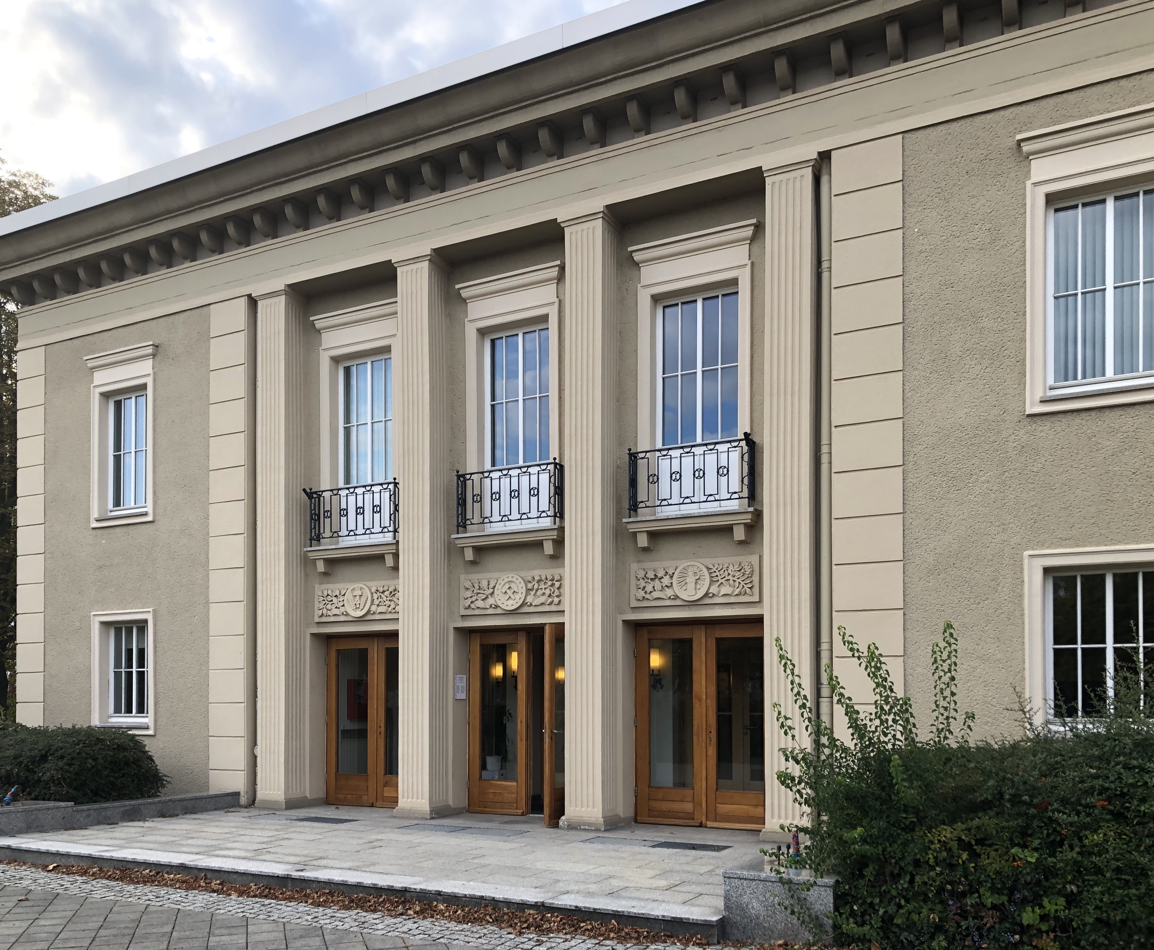 University library of BTU Cottbus-Senftenberg, campus Senftenberg Dolnoserbski: Uniwersitna biblioteka, BTU Cottbus-Senftenberg, campus Zły Komorow